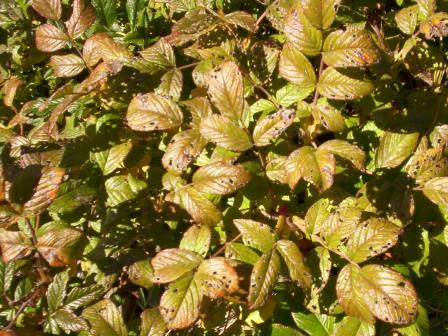 Anthracnose: Sphaceloma rosarum on R.rugosa; Authors own specimen